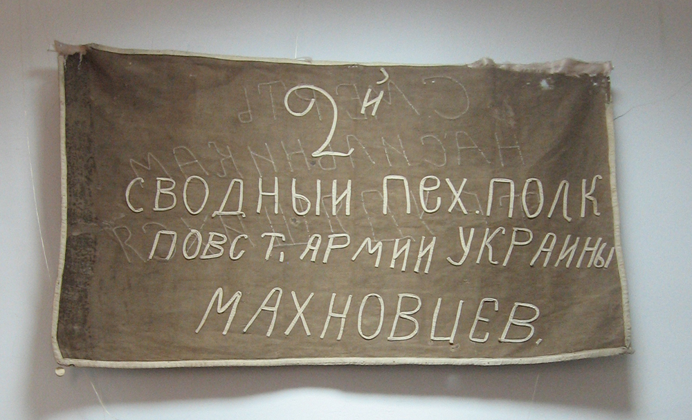 Anarchist Black Army flag from around 1919. It says "2nd Consolidated Infantry Regiment of the Insurrectionary Army of Ukraine, Makhnovists".